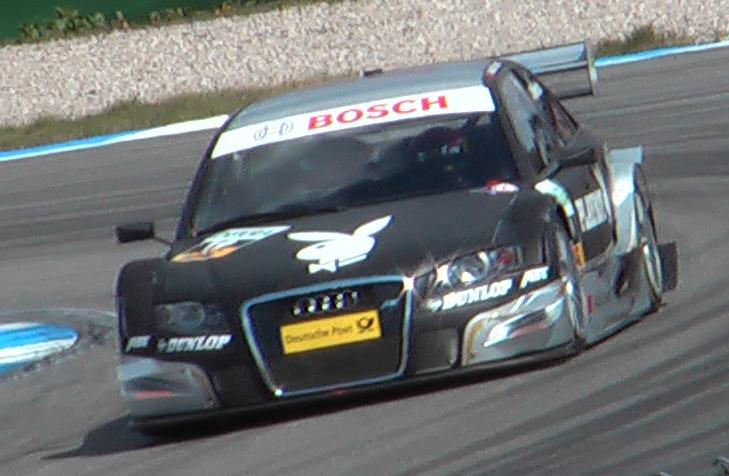 Markus Winkelhock driving for Audi in the 2008 Deutsche Tourenwagen Masters season.